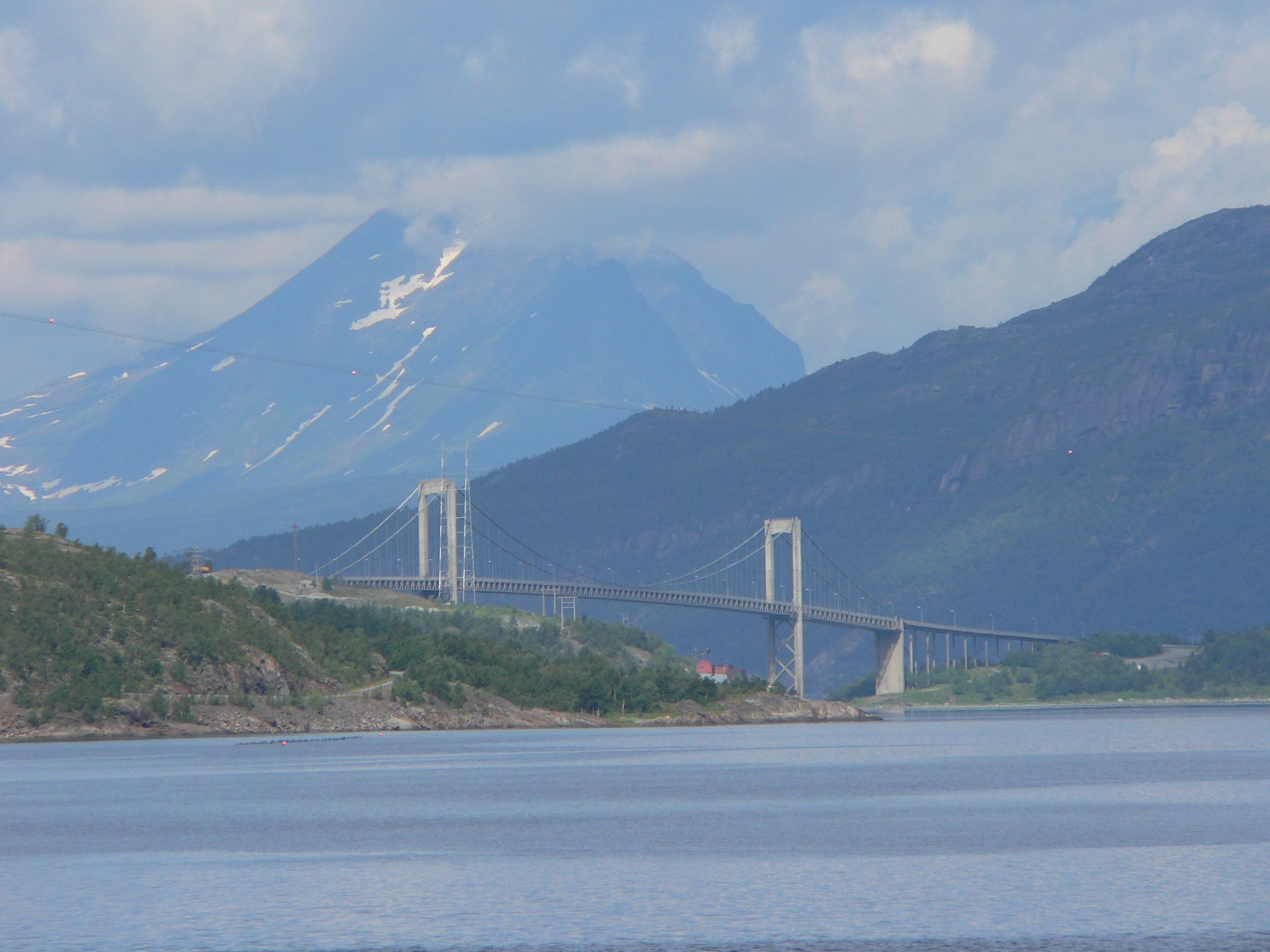 The Rombak Bridge crosses the fjord Rombaken near the town of Narvik in Nordland county in Norway